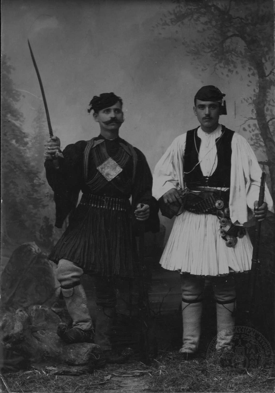 Serbian Chetnik commander (vojvoda) Micko Krstić, standing to the left, in Greek Macedonian rebel (Makedonomachoi) attire.